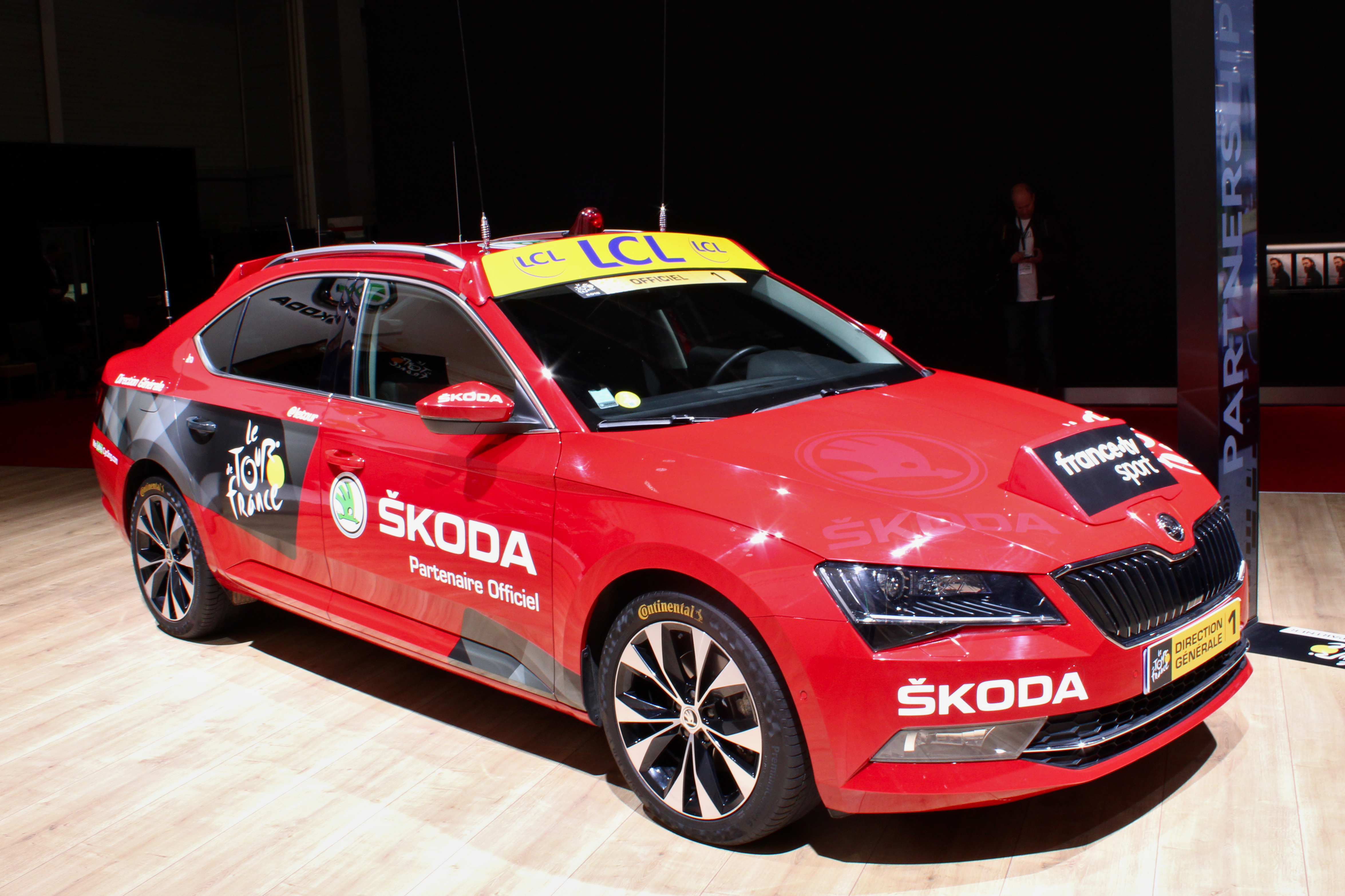 Skoda Octavia at Paris Motor Show 2018